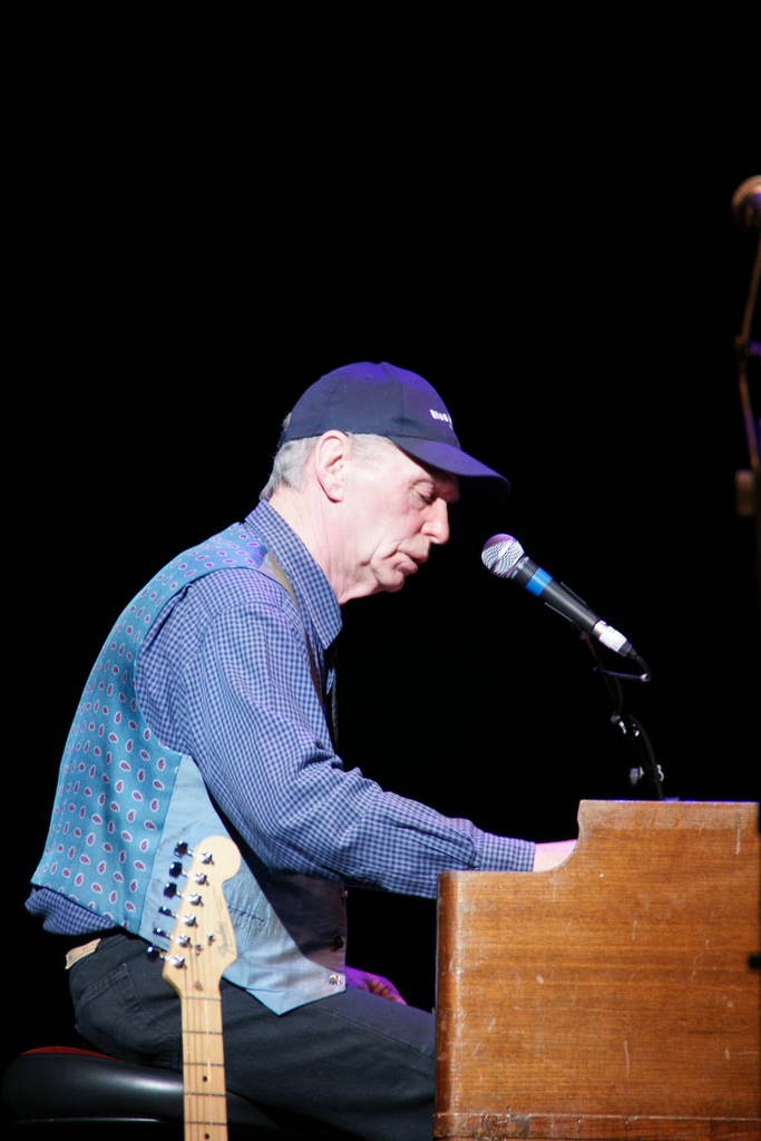 Bill Wyman, Rhythm Kings, Middelburg, Georgie Fame on keyboards